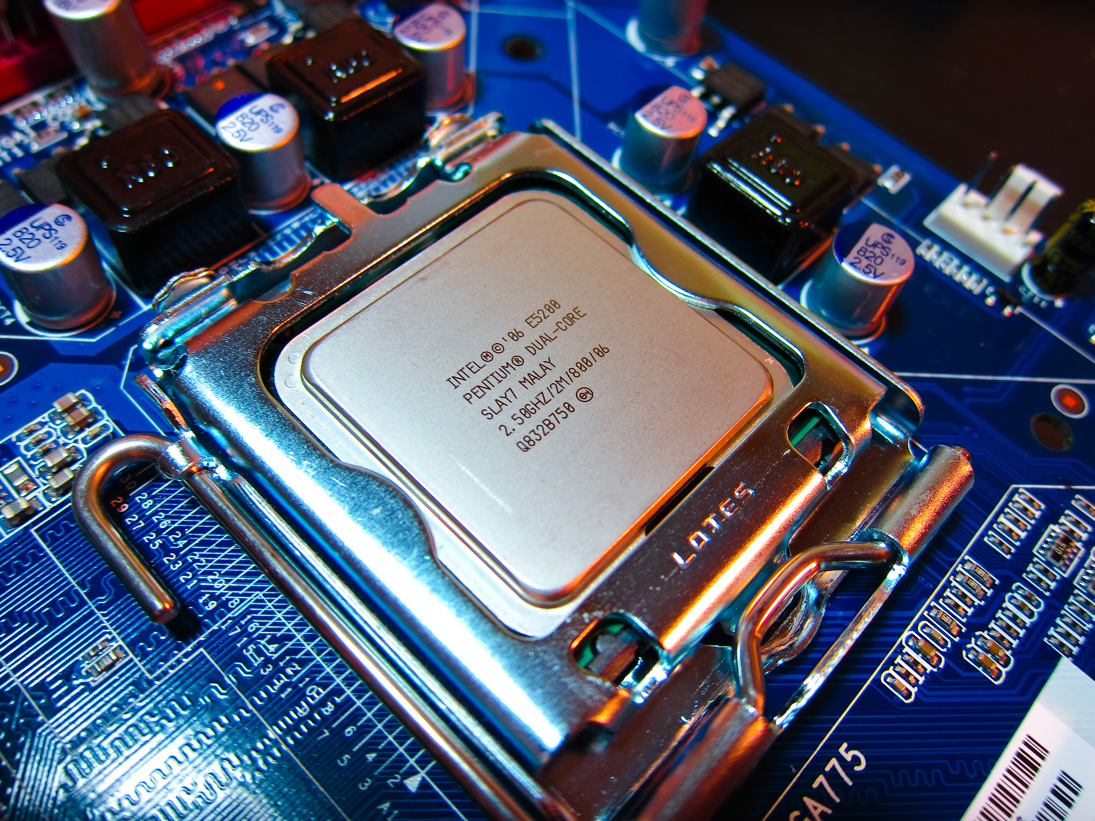 Intel E5200 CPU installed on motherboard